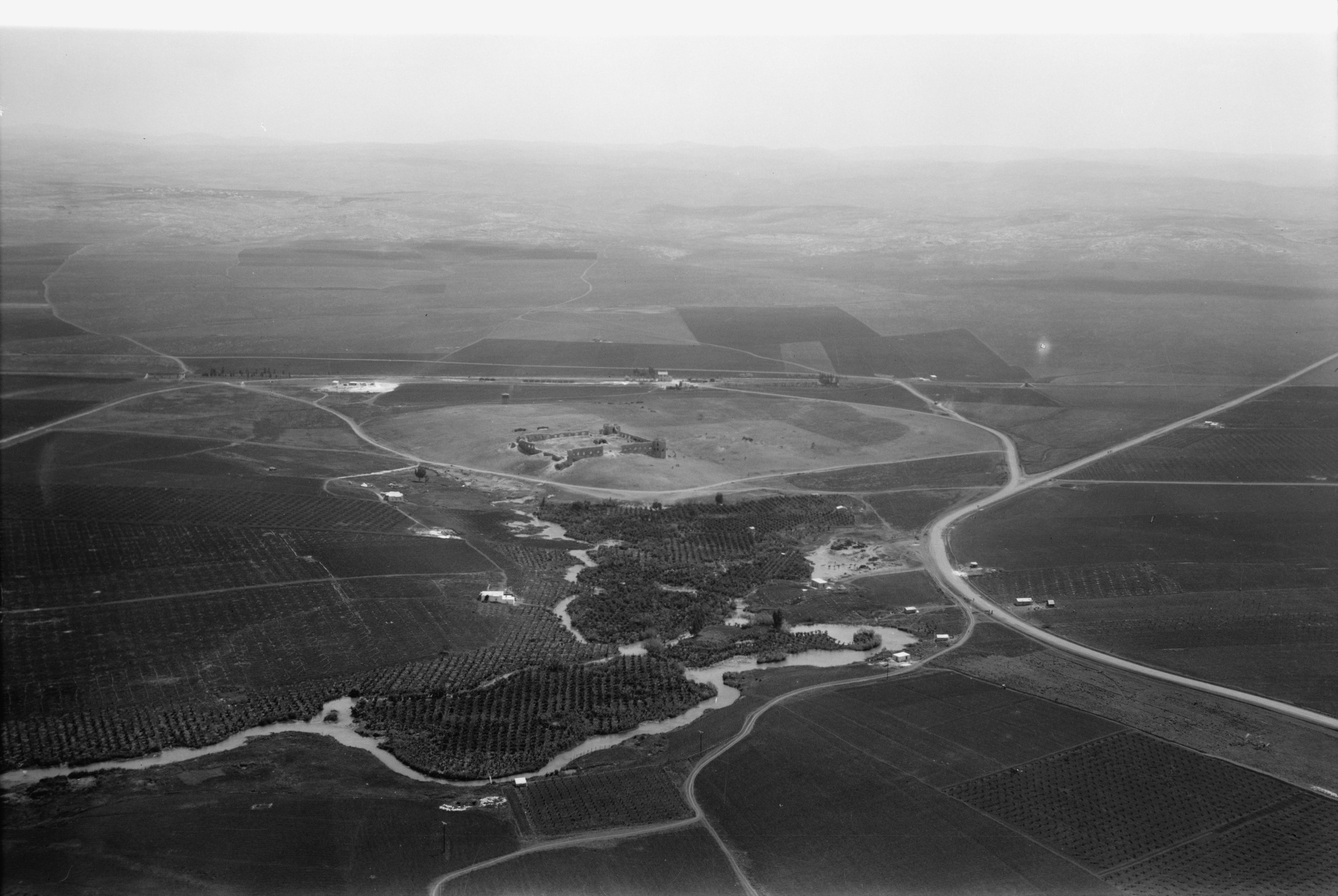 Title: Air views of Palestine. Air route over Cana of Galilee, Nazareth, Plain of Sharon, etc. Ras el-Ain. Source of the Auji showing the old caravansary of Antipatris Abstract/medium: G. Eric and Edith Matson Photograph Collection Physical description: 1 negative